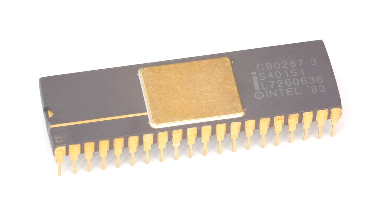 FPU Intel C80287